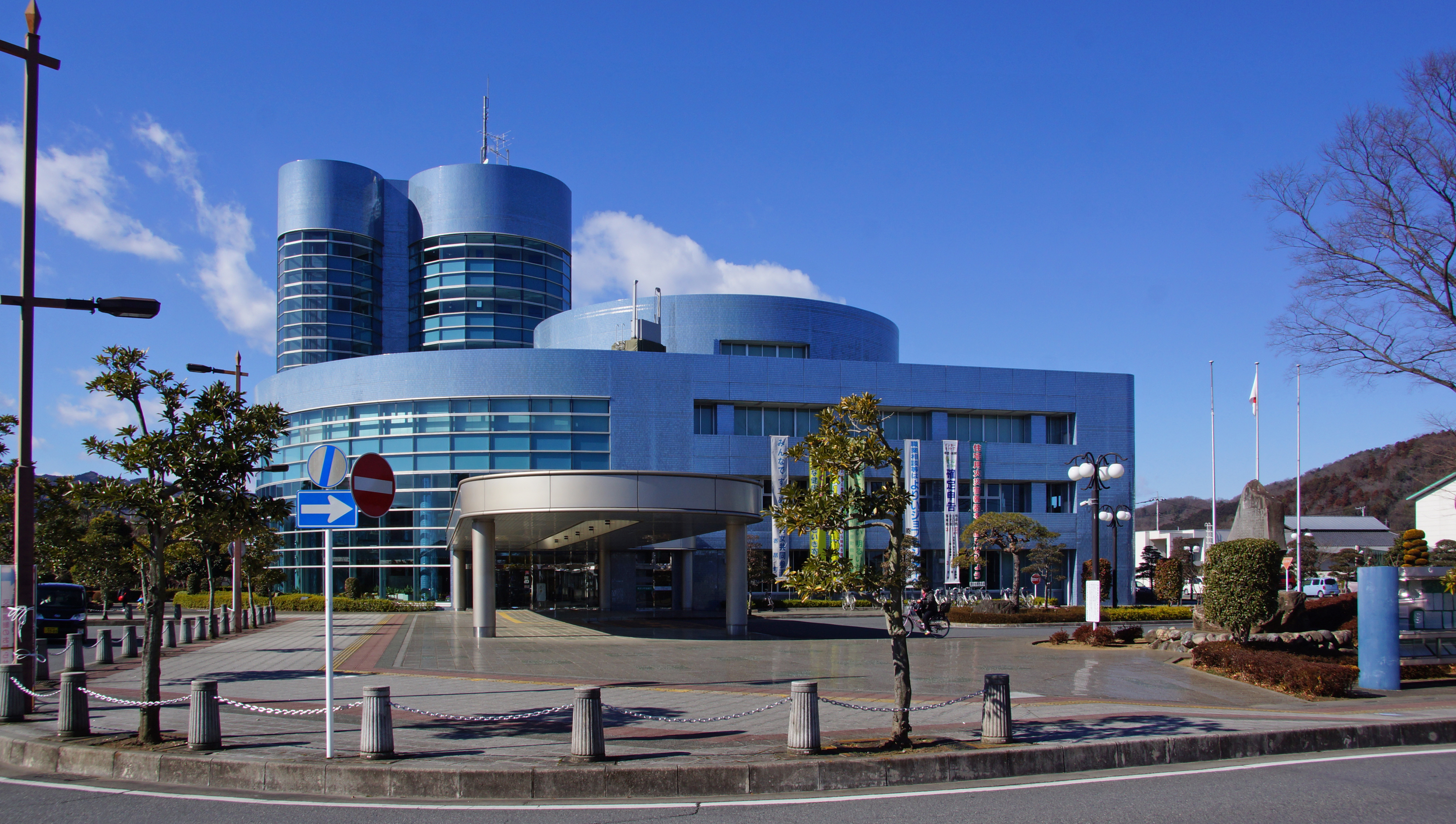 Yorii Town Hall in Saitama Prefecture, Japan